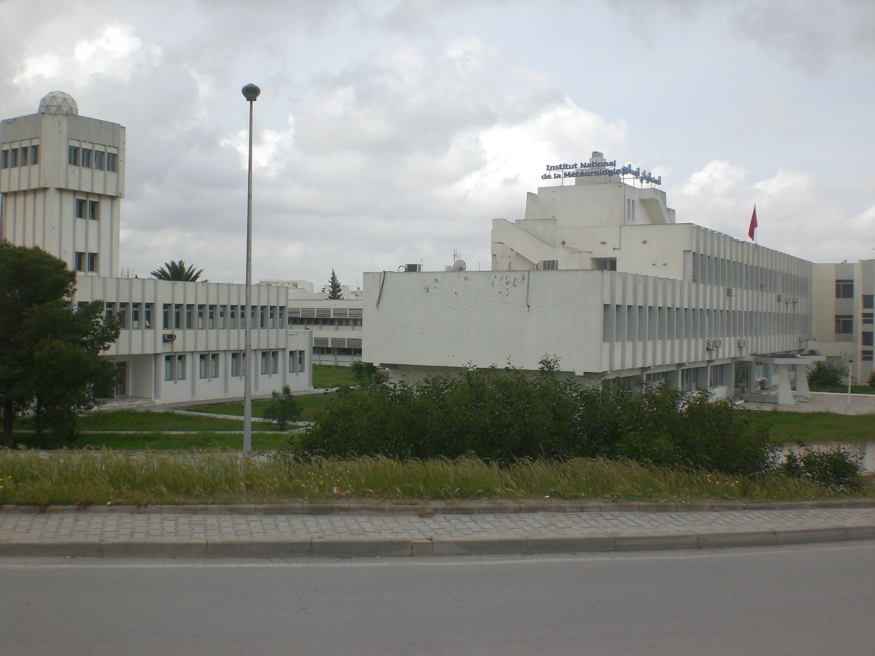 The National institute of Meteorology-Tunis